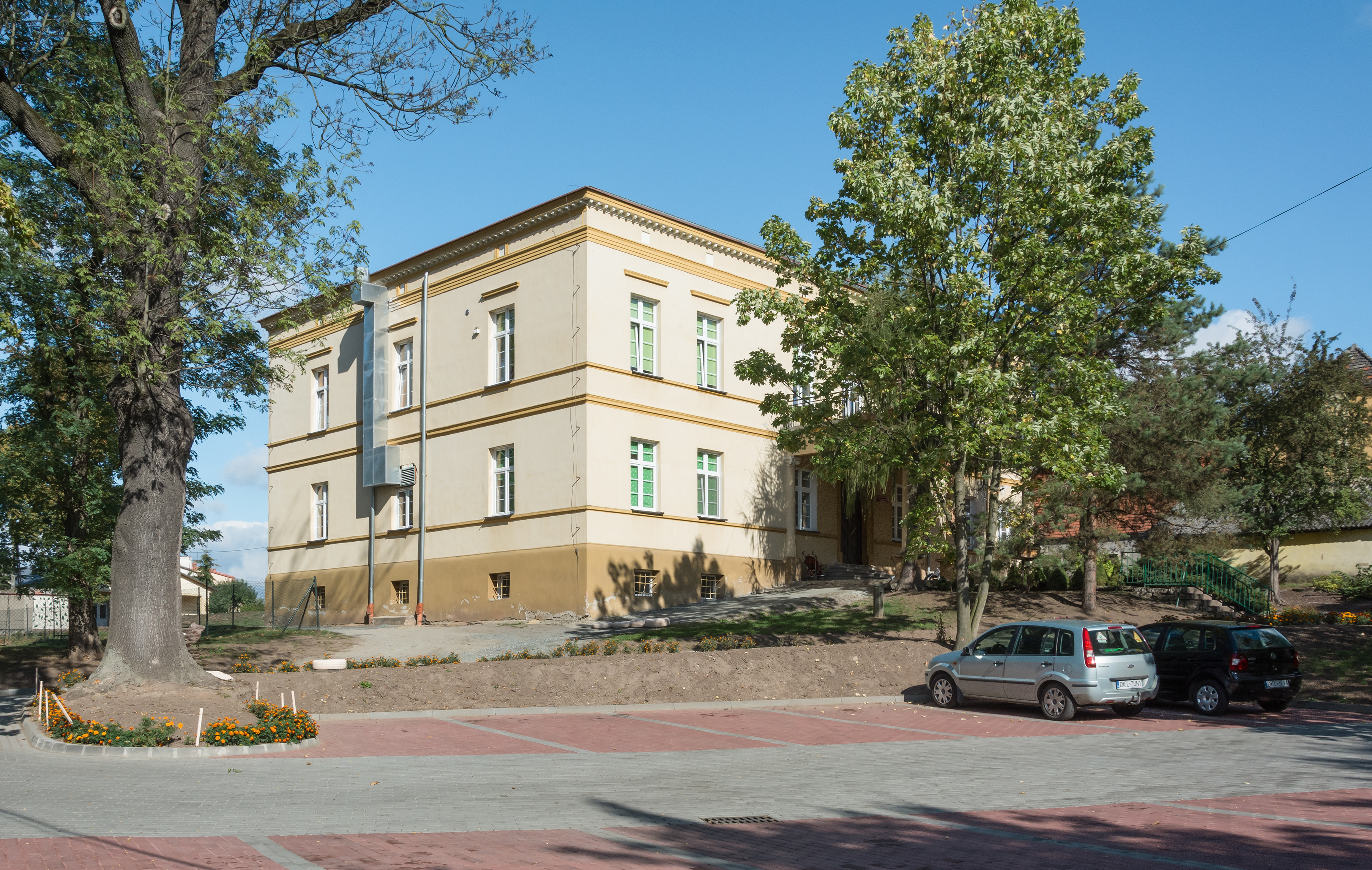 Manor in Bierkowice, now school